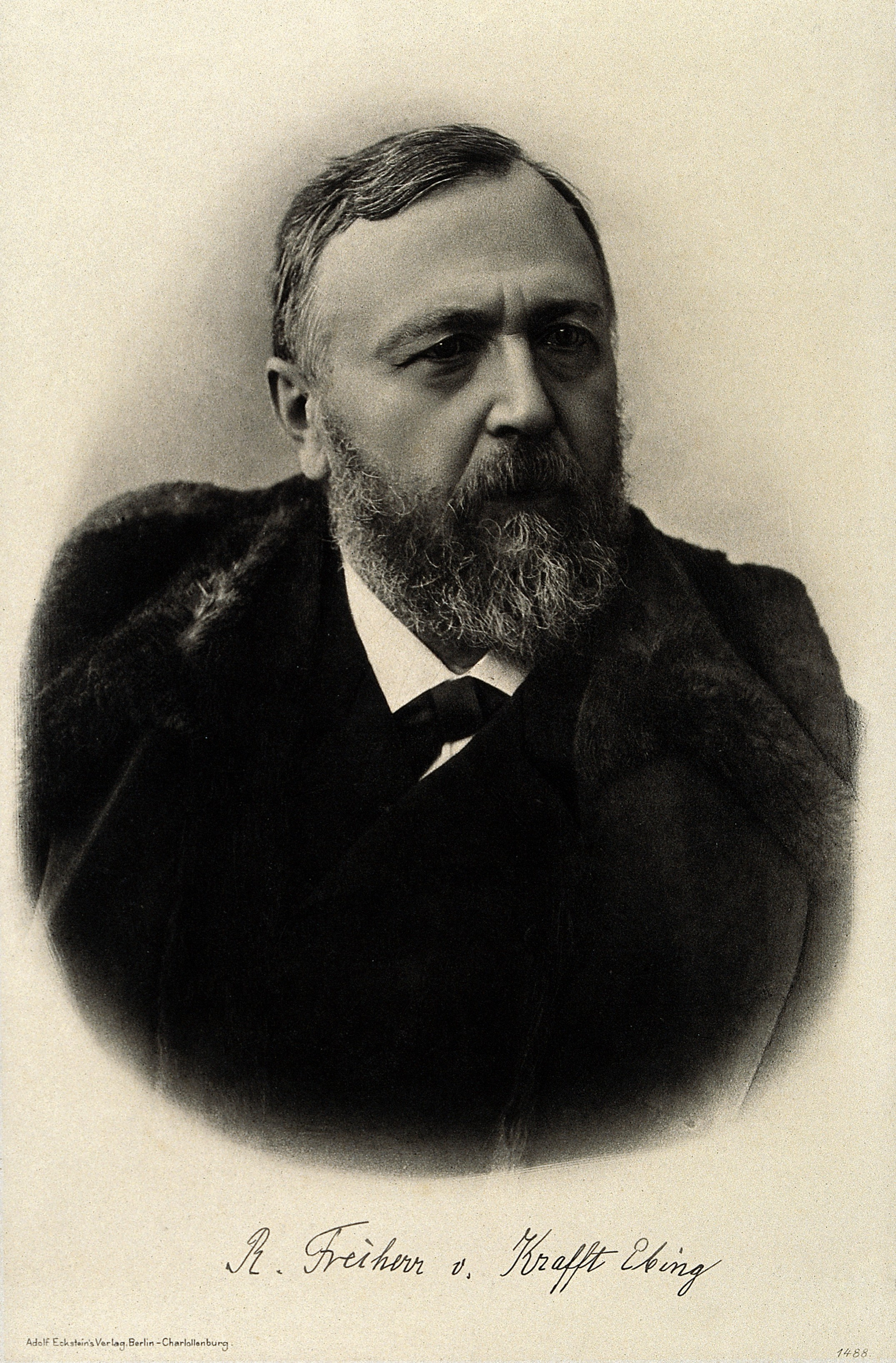 Richard von Krafft-Ebing. Photogravure. Iconographic Collections Keywords: Deviance; Paraphilias; Sexual identity; Sexologist; Fan; Transvestite; Cross dressing; Moustache; Paraphilia